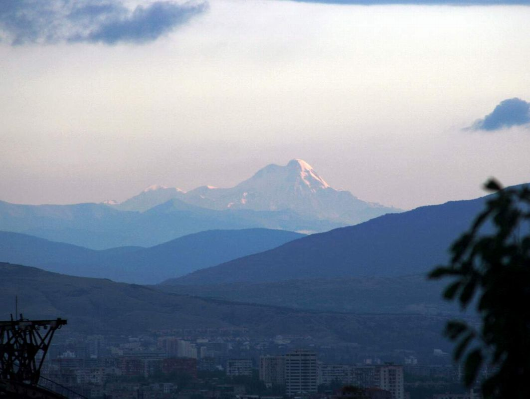 Mt. Kazbegi as seen from Tbilisi